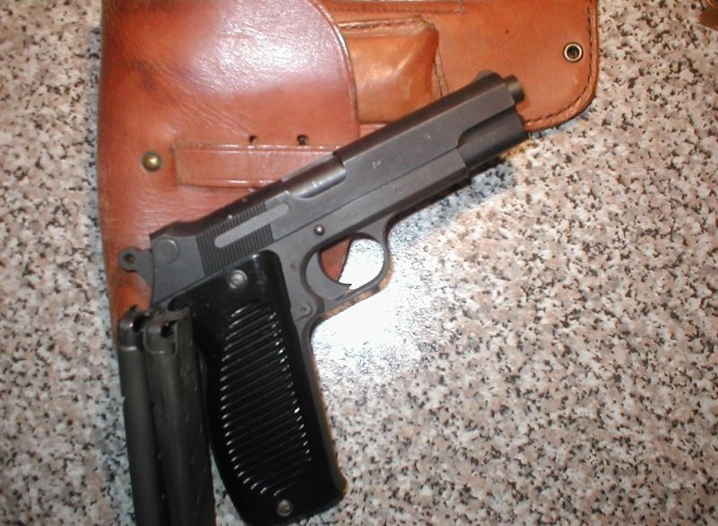 French MAC 50 pistol. MAC 50 aka MAS 50 and Modèle 1950. DCB Shooting-Edmond HUET.